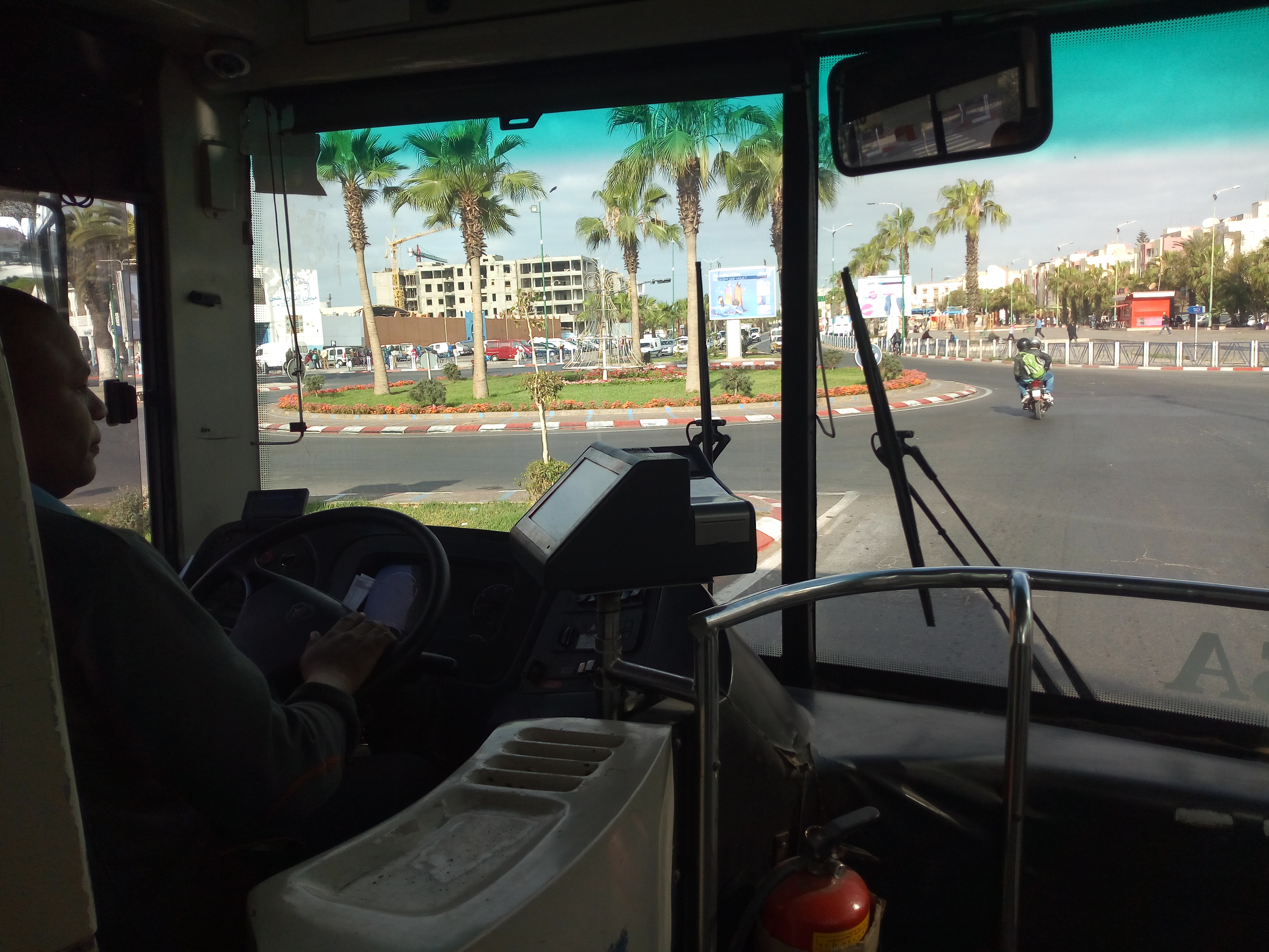 Bus driver ALSA Agadir by AmalouMed This is an image with the theme "Africa on the Move or Transport" from: Morocco